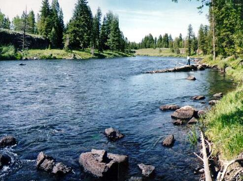 Henrys Fork of the Snake River in Southeastern Idaho